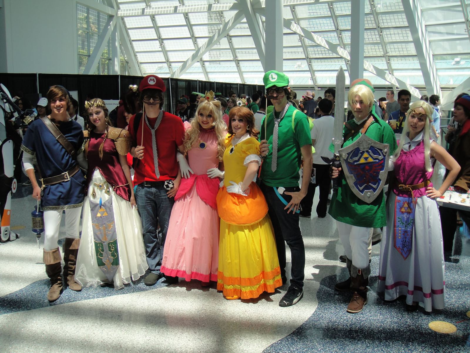 Cosplay of characters from Nintendo franchises, Mario and The Legend of Zelda, at Anime Expo 2011 in Los Angeles.